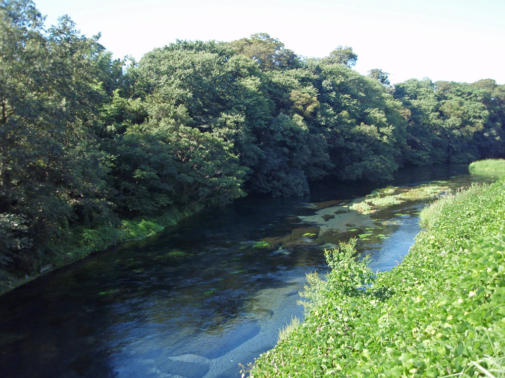 Downstream of Kakita River in Shimizu, Shizuoka Prefecture, Japan. Shot on Kakita Bridge.